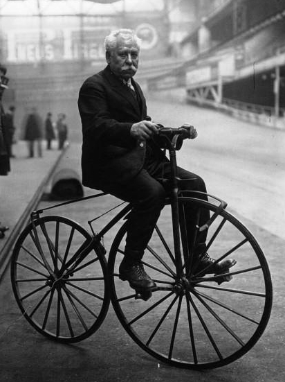 French cyclist Charles Terront (1857-1932) on his 1869 Michaux velocipede in 1922.